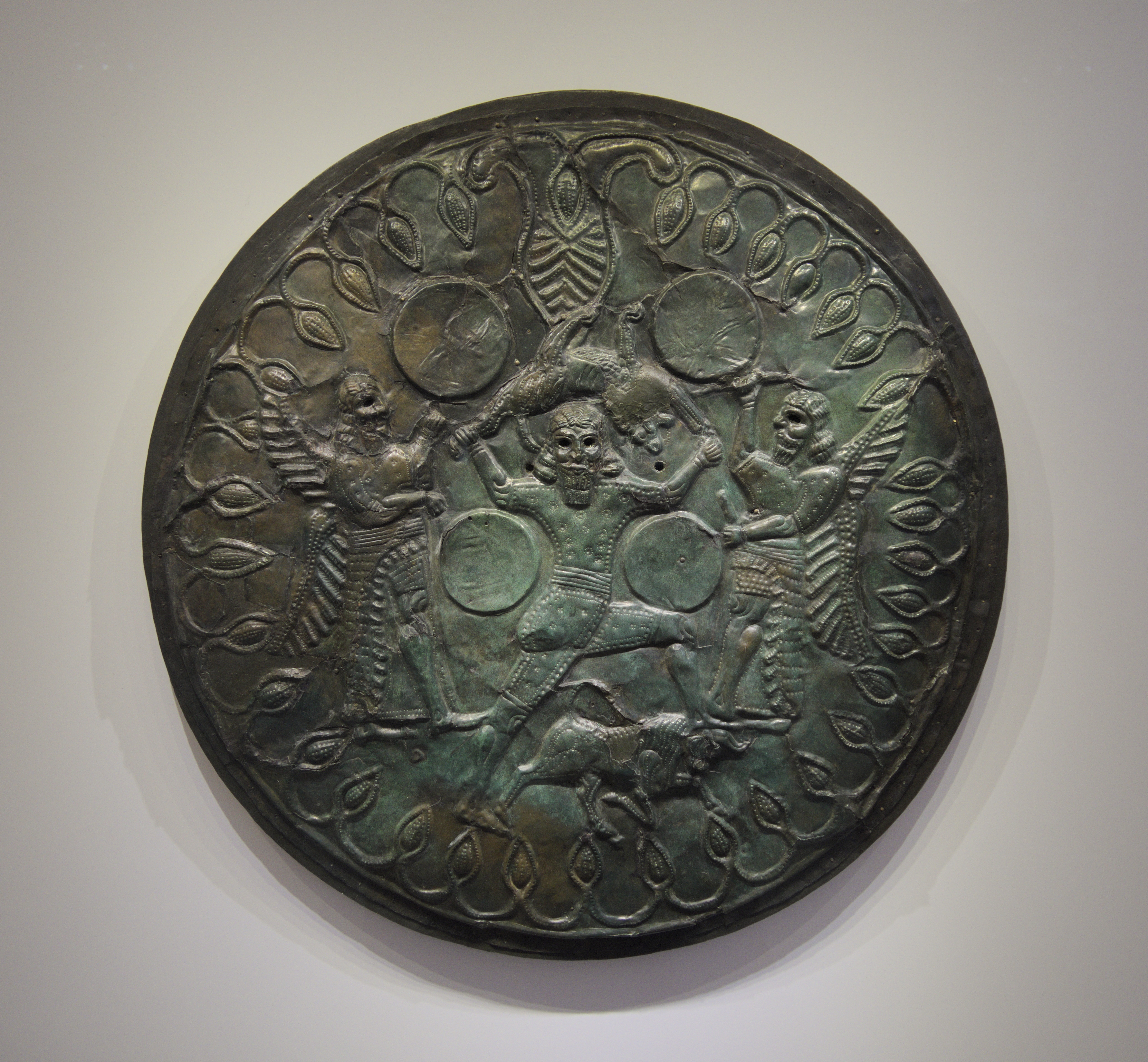 Votive bronze drum from the late 8th century BC, found in the cave of mount Idi in Crete. The central figure has been identified as Zeus, who is breaking the backbone of a lion, while controlling a bull with his left foot. The two winged figures are Kouretes, that beat the drums to prevent Kronos, the infant eating father of Zeus, from hearing his baby cries during infancy. The decoration of the drum has many influences from Assyrian art. Exhibited at the Archaeological Museum of Heraklion, Greece.